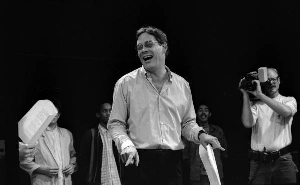 Local call number: ffl1418a Personal Author: Thomas, Deborah. Title: [Raul Julia speaks to the audience: Tallahassee, Florida] Physical descrip: 1 photonegative; b&w; 35 mm. Series Title: (Deborah Thomas Collection. Series M98-4; Box 1, FF24.) General Note: Raul Julia was born in Puerto Rico in 1940 and became a famous actor. His notable roles include appearing as a political prisoner in Kiss of the Spider Woman and as Gomez Addams in The Addams Family. He was also known for his work with Joseph Papp's New York Shakespeare Festival. He suffered from cancer and died of a stroke in 1994. Photographed: October 29, 1985 Repository: 500 S. Bronough St., Tallahassee, FL 32399-0250 USA. Contact: 850.245.6700. Persistent URL